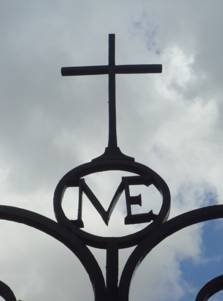 Symbol of the Mission Etrangeres de Paris